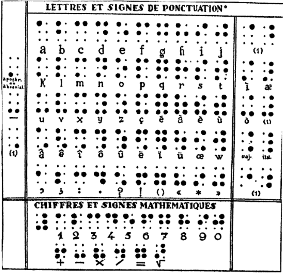 Braille's final alphabet, according to Pierre Henri (1952). "(1)" indicates prefixes for musical or mathematical notation.